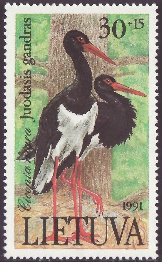 Stamp of Lithuania; 1991; semi-postal stamp of the special issue to the "Red book of Lithuania"; stamp with surcharge value for benefit of the society "Lithuania's nature protection"; stamp picture of two birds of the species Ciconia nigra with black, vertical, single-line inscription on the left (scientific name (italic characters) + Lithuanian name (normal charcters)): "Ciconia nigra" + "Judoasis gandreas" Stamp: Michel: No. 489 (LT); Yvert & Tellier: No. 420 (LT); AFA: No. 481 (LT); PZ: No. 33 Color: multicolored Nominal value: 30 + 15 (Kopekų) Postage validity: from 21 November 1991 until 30 September 1992 Stamp picture size: 32.8 x 55 mm